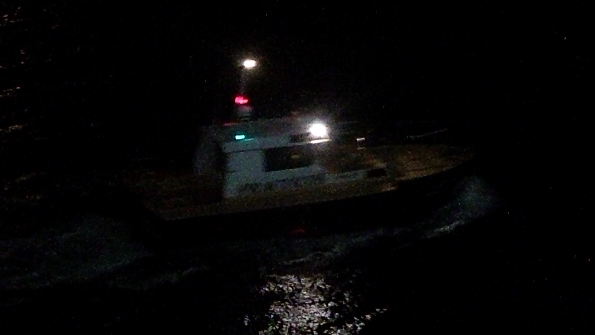 Pilot vessel at night with the special white-over-red toplights=white (captains)cap and a red nose